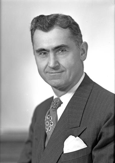 Senator Edward F. Riley, 1951